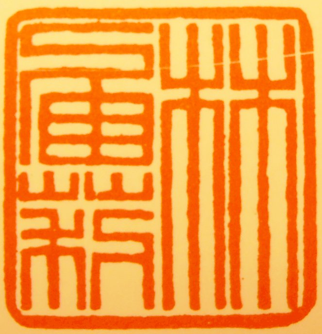 Seal of Cecilia Lindqvist (Lín Xīlì, 林西莉)